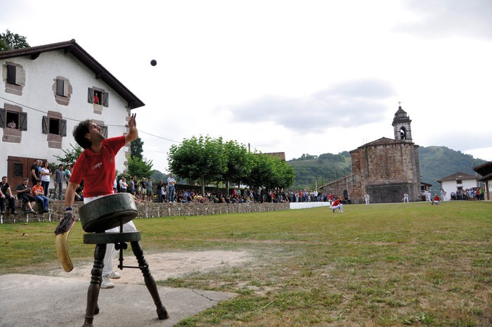 A player taking the kick in the laxo game (Navarre)